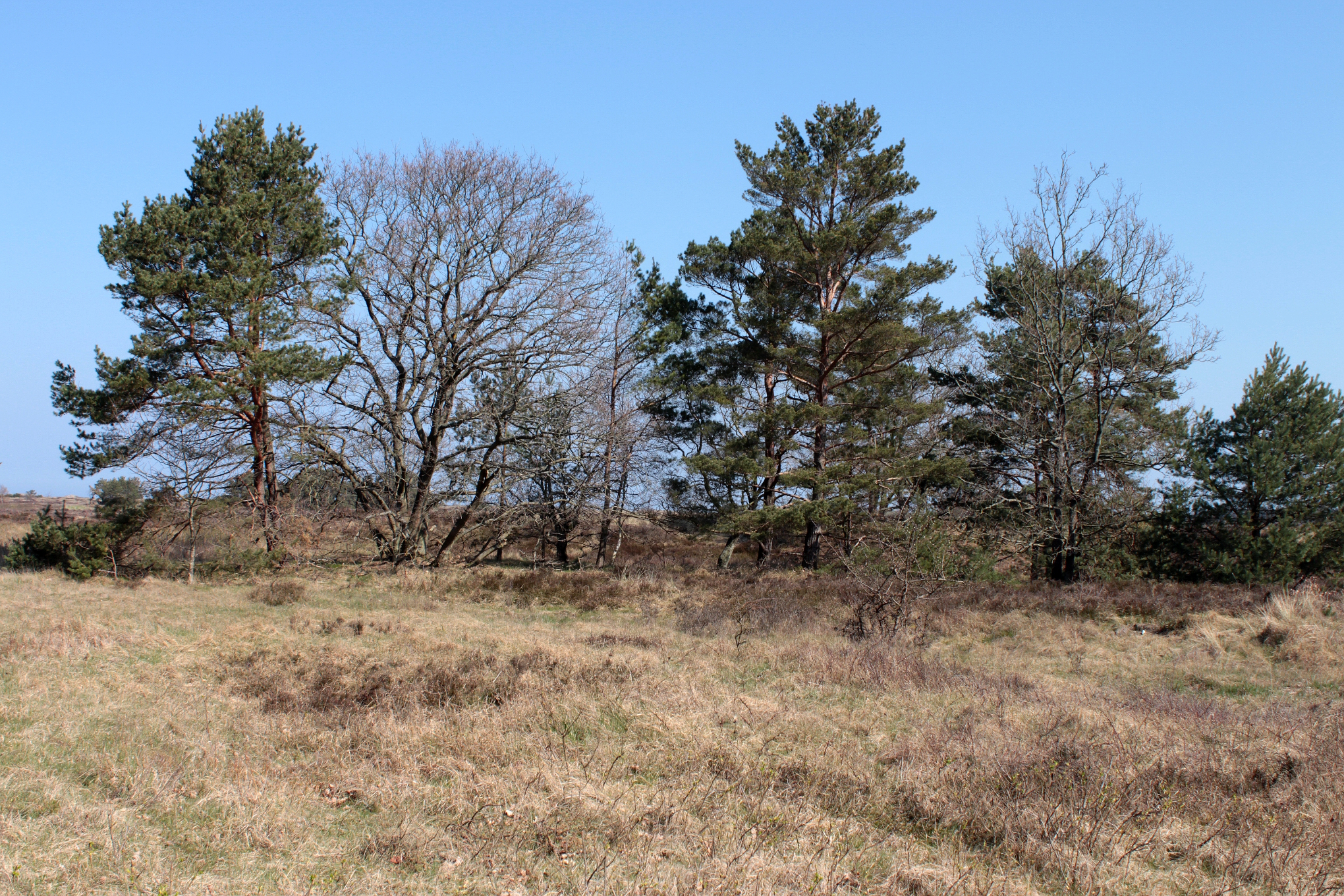 Melby Overdrev (= Melby Common) in Halsnæs Kommune, Denmark. Here, on a sandy soil, the vegetation is slowly returning to a forest type, dominated by Pinus silvestris, Betula pendula and Quercus robur.